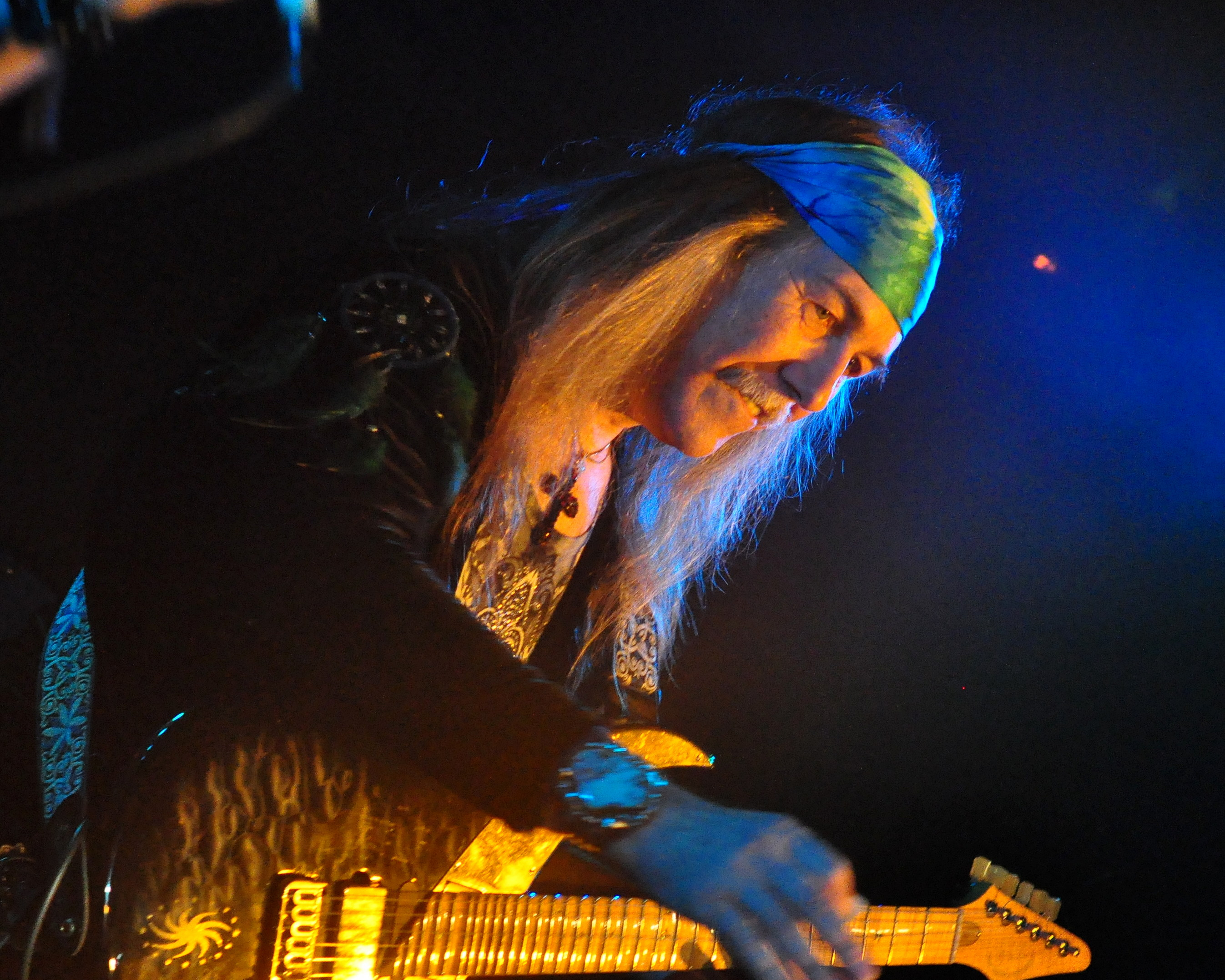 Uli Jon Roth performing in 2013 in Canada.